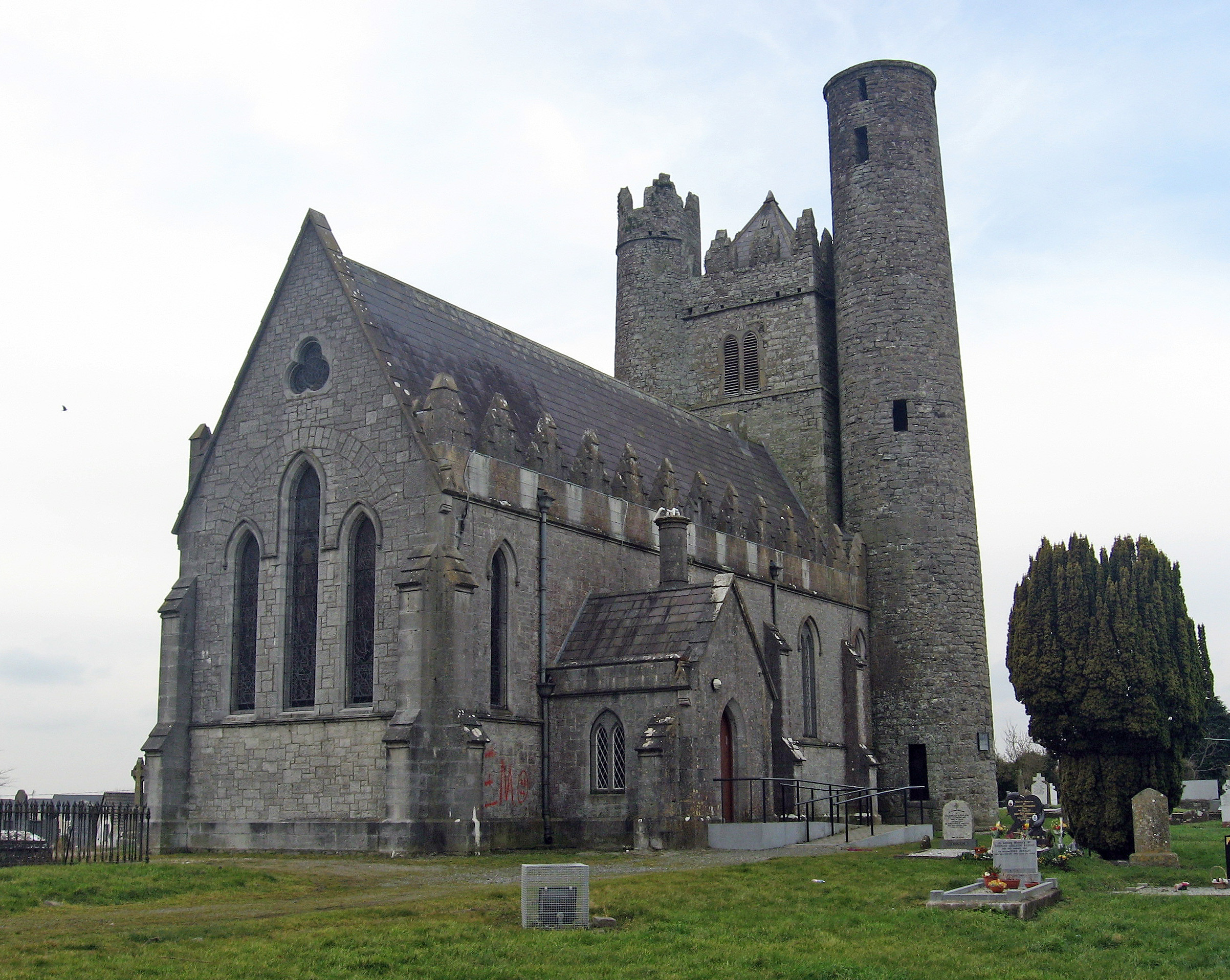 Church and Round Tower at Lusk, OS grid O2154 :: Geograph Ireland. The Round Tower is the only surviving monument of the Early Christian period monastic foundation.